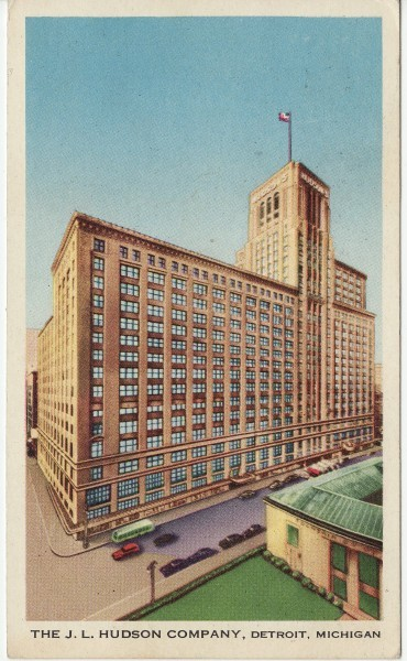 Postcard of the J.L. Hudson Building. Formerly located on Woodward Avenue in downtown Detroit, Michigan. Dated to be before 1951 from the postmark on the reverse side. Flagship store for the J. L. Hudson's chain, it stood 1923 to 1998 (demolished). No copyright notice, nor author credited.